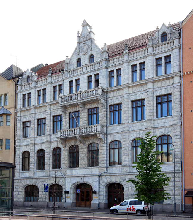 Supreme Administrative Court of Finland, Fabiankatu 15, Helsinki, Finland. Architect: Waldemar Aspelin. Built in 1901.